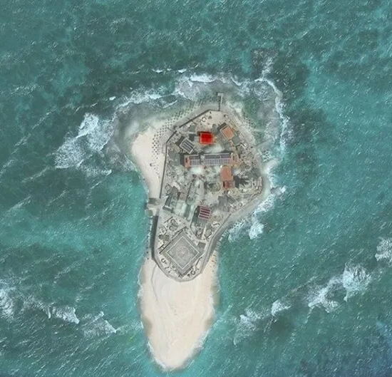 Amboyna Cay